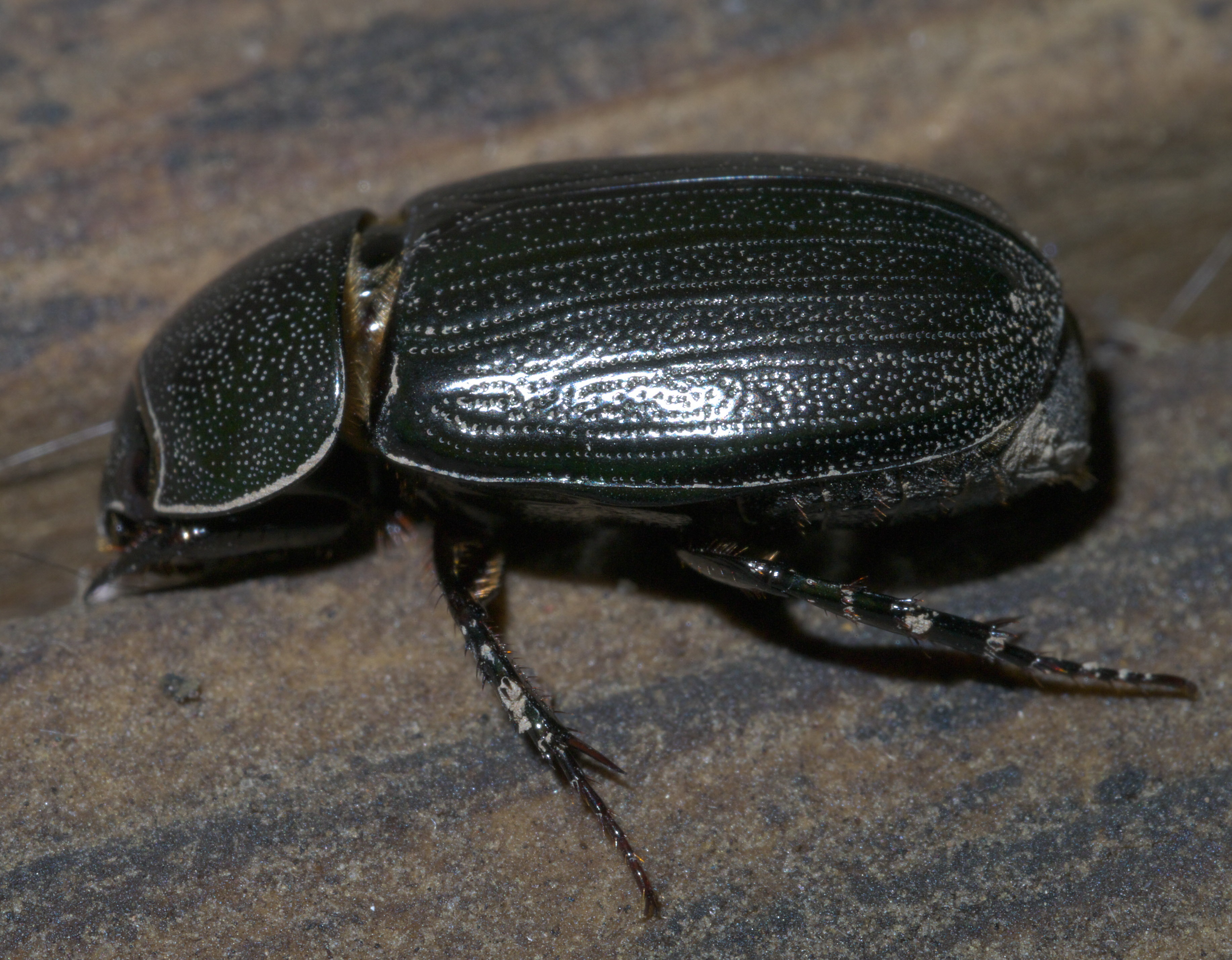 Dyscinetus morator, Rice Beetle, ID Confidence: 98